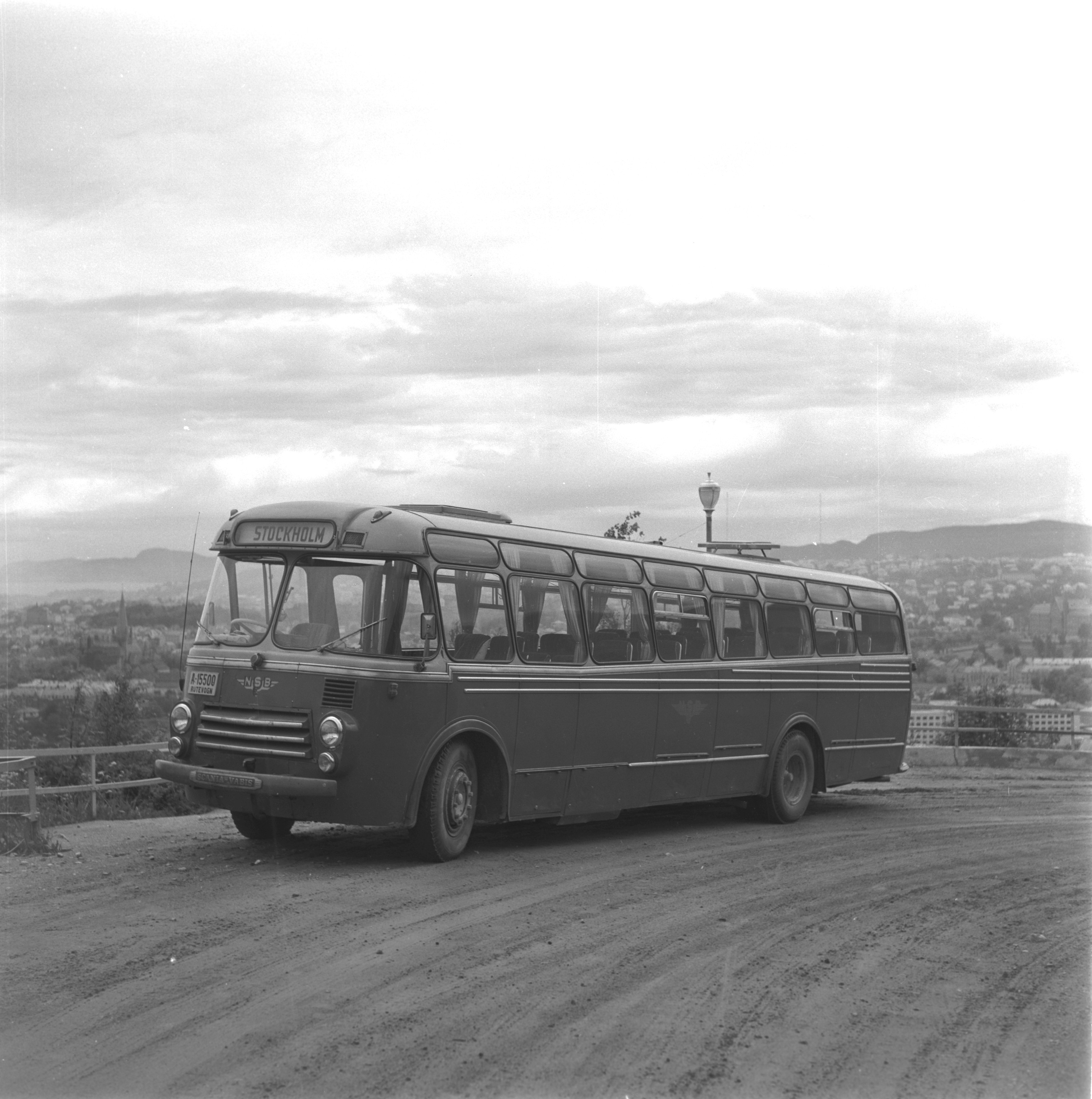 A bus bound for Stockholm photographed at Utsikten in Trondheim